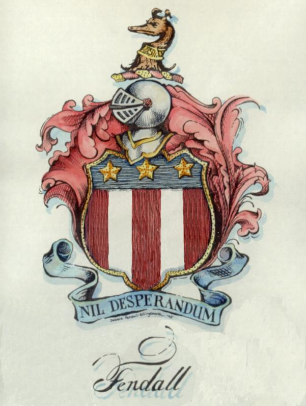 Fendall Family Coat of Arms Description - "paly of 6 arg and gu. On a chief az 3 mullets or" Crest - "a stag's head erased gorged with a collar charged with 3 mullets" Motto - "Nil Desperandum" = "Never Despair" Dated at least as far back as Benjamin Fendall I, Esq. (1708-1764), a grandson of Gov. Josias Fendall (ca. 1628-1687). Was drawn and painted by sister of downloader, Debrorah Kay (Fendall) Ellingsworth.